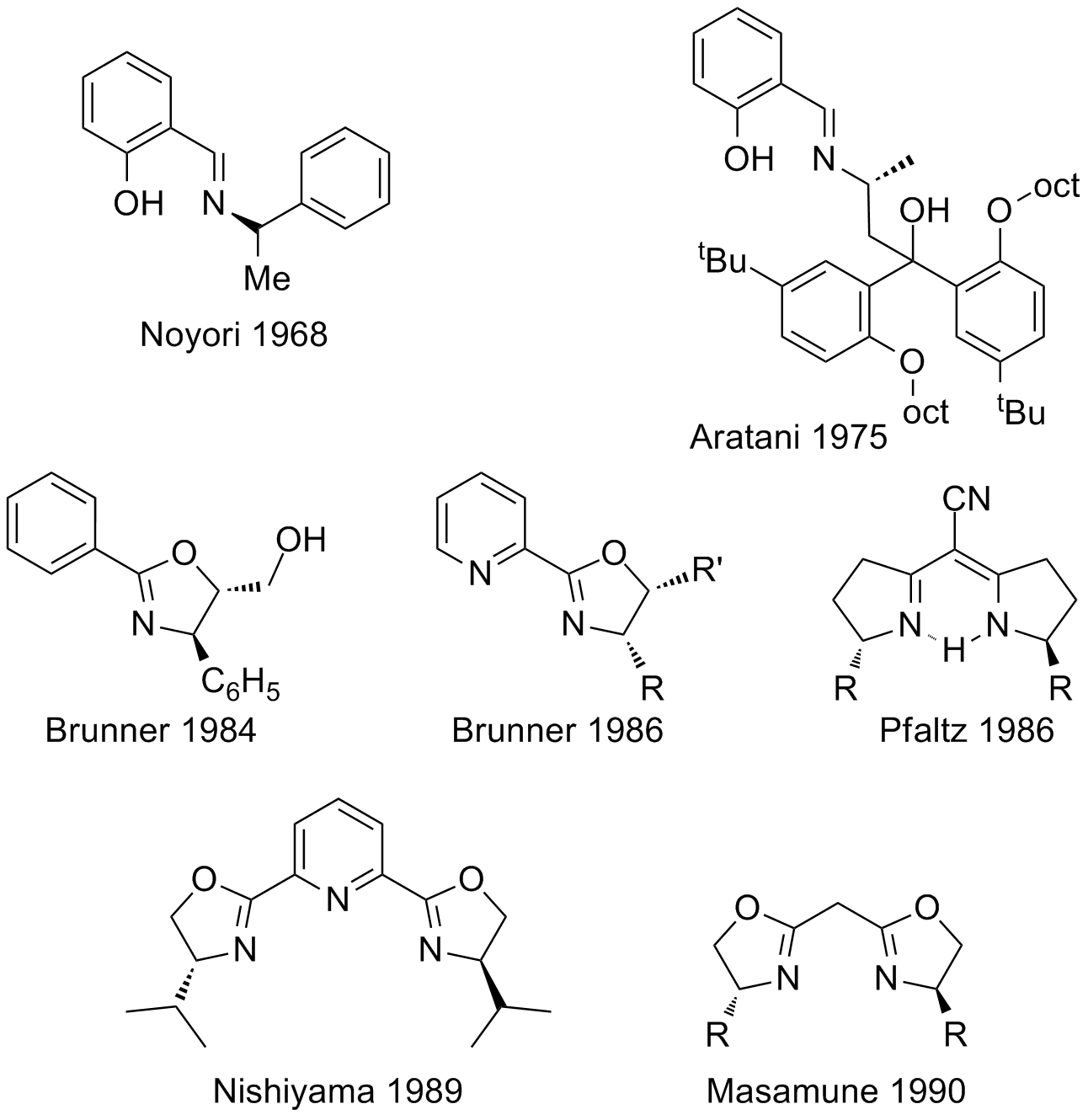 Chemical compounds leading to the development of bis-oxazoline ligands